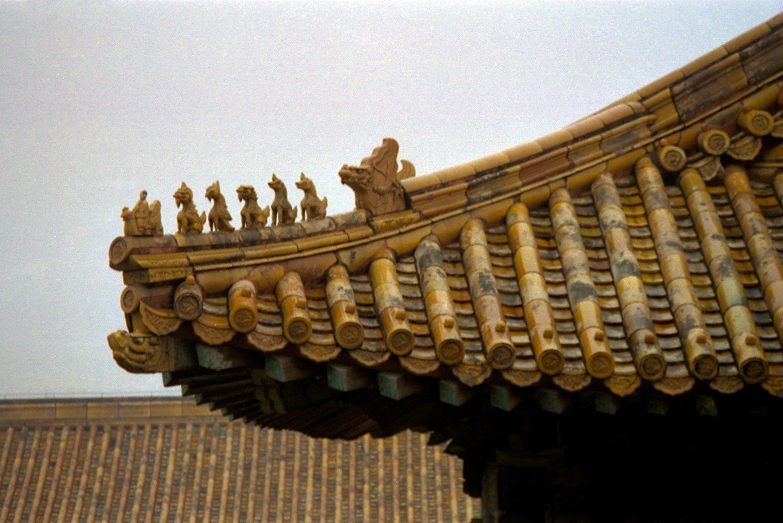 The yellow tiles on the roof indicate an imperial building. And the more dragons (maximum 11) along the roof ridge, the greater the status. The Forbidden City is the largest palace complex in the world. It was ‘forbidden’ because no one could enter or leave without the emperor’s permission. Constructed from 1406 to 1420, it covers 72 hectares/178 acres. The 980 surviving buildings comprise 8,886 rooms. Over the succeeding centuries it was the home of 24 emperors until 1924 when the last emperor of China was driven out. Today the Forbidden City is formally known as the Palace Museum. The Imperial Palaces of the Ming and Qing Dynasties in Beijing and Shenyang were declared a UNESCO World Heritage Site in 1987. On Google Earth: Forbidden City 39°54'56.69"N, 116°23'26.97"E